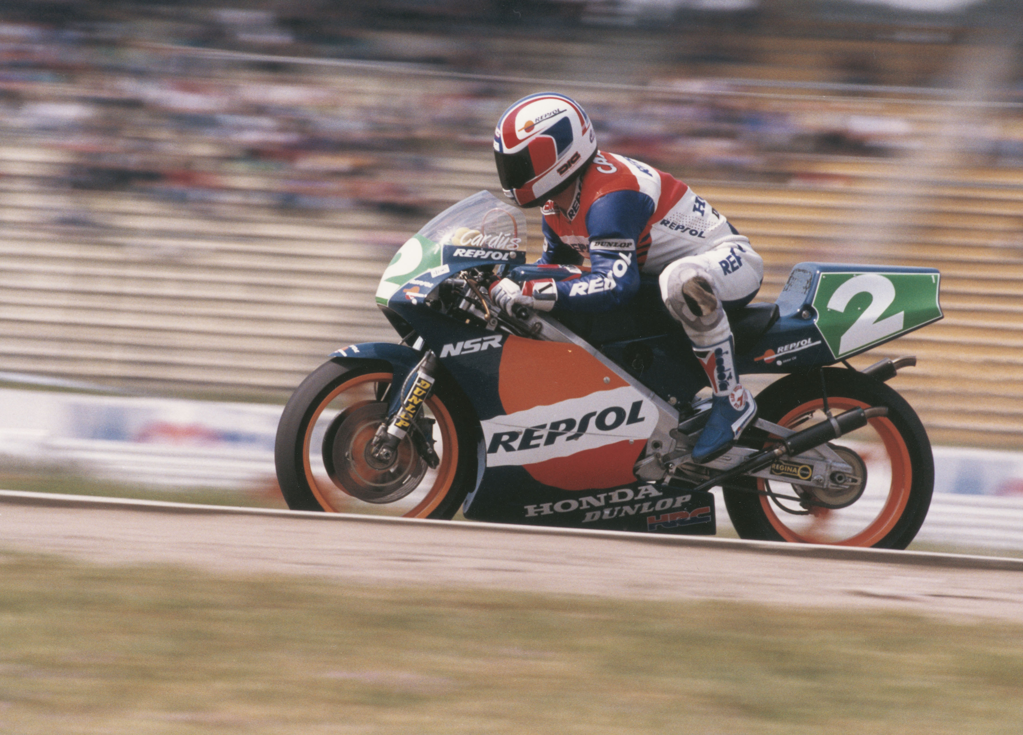 Carlos Cardús hits the brakes on the entry to the motodrom at Hockenheim (Germany), at the end of the seemingly endless straight that heads into the woods.